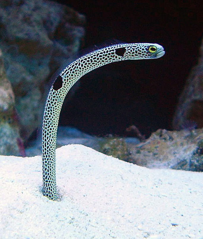 Spotted garden-eel (Heteroconger hassi)